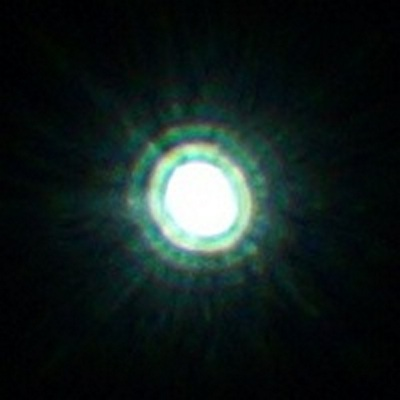 Real Airy disk in focal plane of «Rubinar 10/1000» with 2-x soviet teleconverter «K-1». Sum focal lenghth = 2000 mm. f-number 1/25 Artificial star at distance near 4 m. Small underfocus. Image increased 2-x size (in pixels) without additional corrections. ISO: 100, Exposure duration: 8 seconds. Taken by Roman Napreyev.